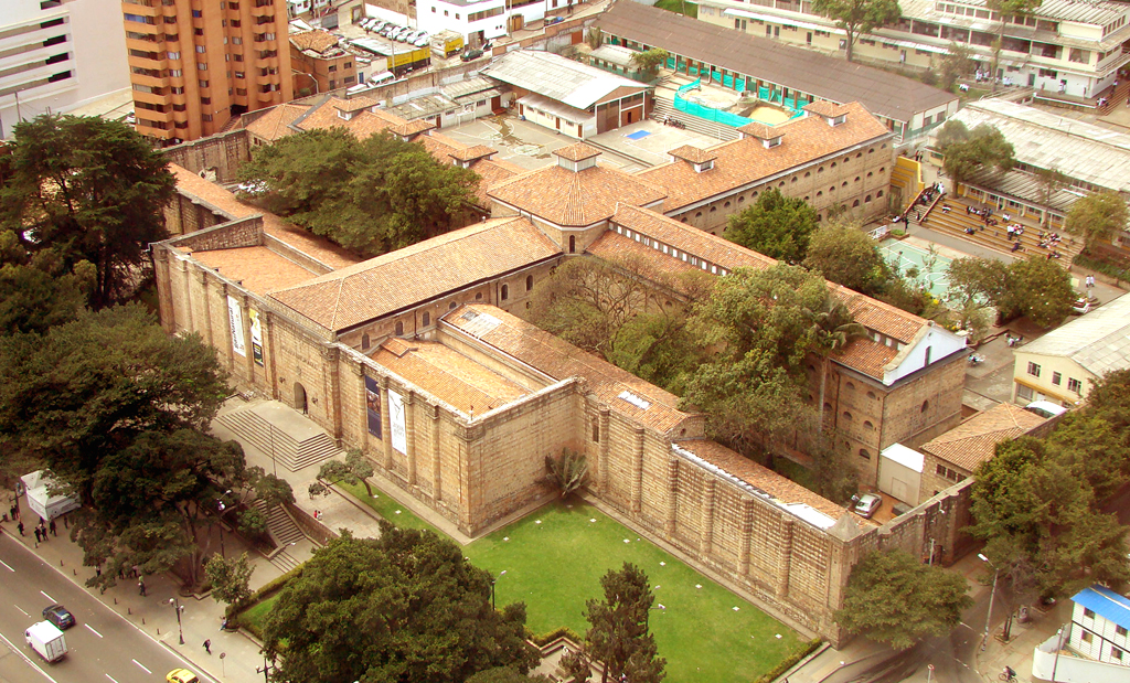 Aerial view of the National Museum of Colombia (foreground) and the Universidad Colegio Mayor de Cundinamarca (rear)